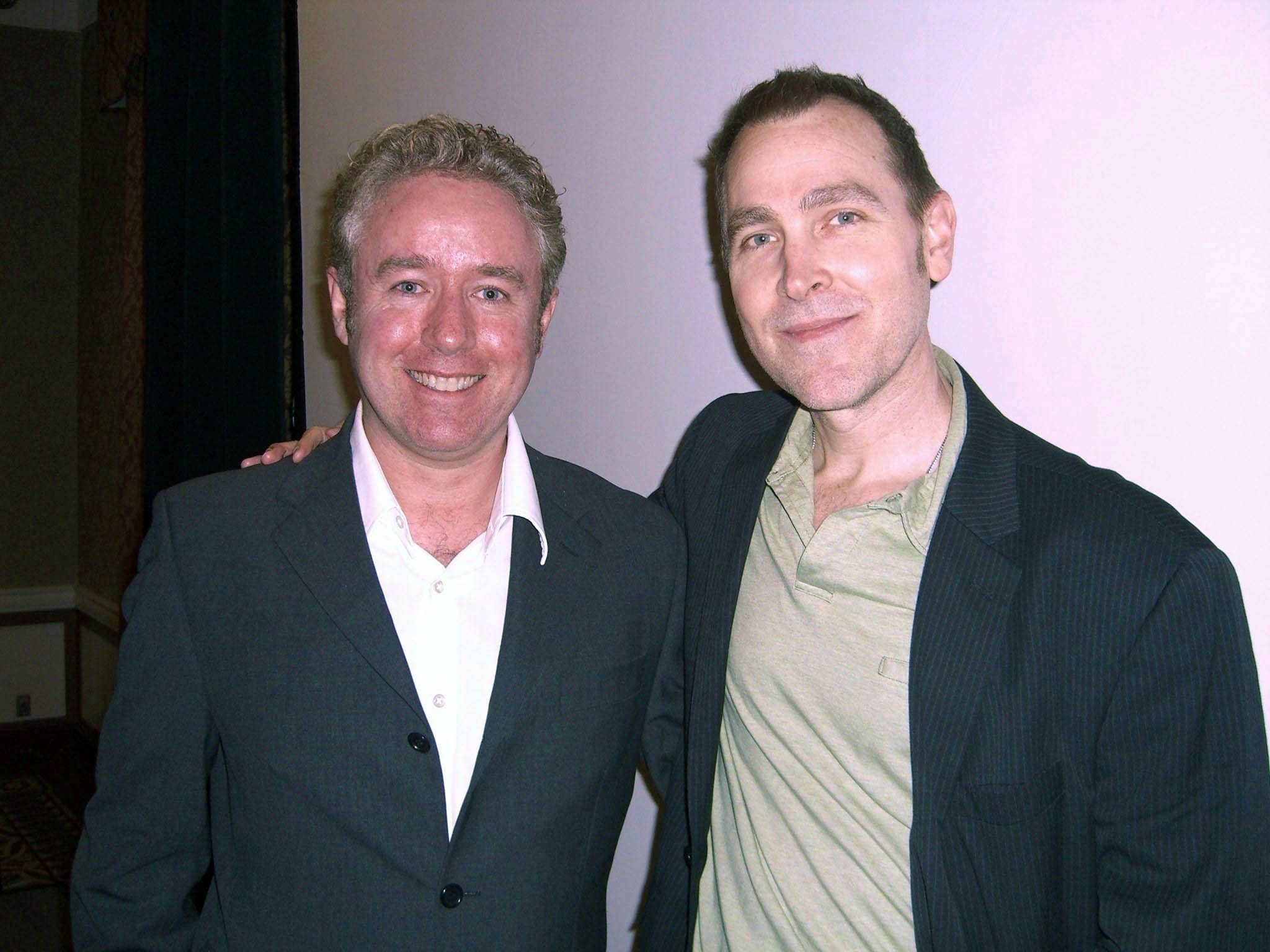 Comic book creators Mark Millar and J.G. Jones at the Big Apple Convention in Manhattan, October 2, 2010. Photo by Luigi Novi. This photo may be used, modified and published for any purpose, only if a easily visible credit to the photographer is placed near the photo in each instance in which it is used. (See licensing information below.) Publication of this photo without this proper attribution constitutes copyright infringement. For more information on my photos, you can contact me here.